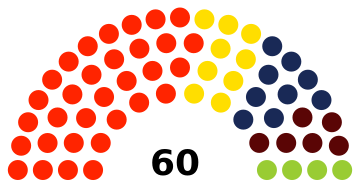 2017 Latvian municipal elections in Riga, political party seats in city hall results